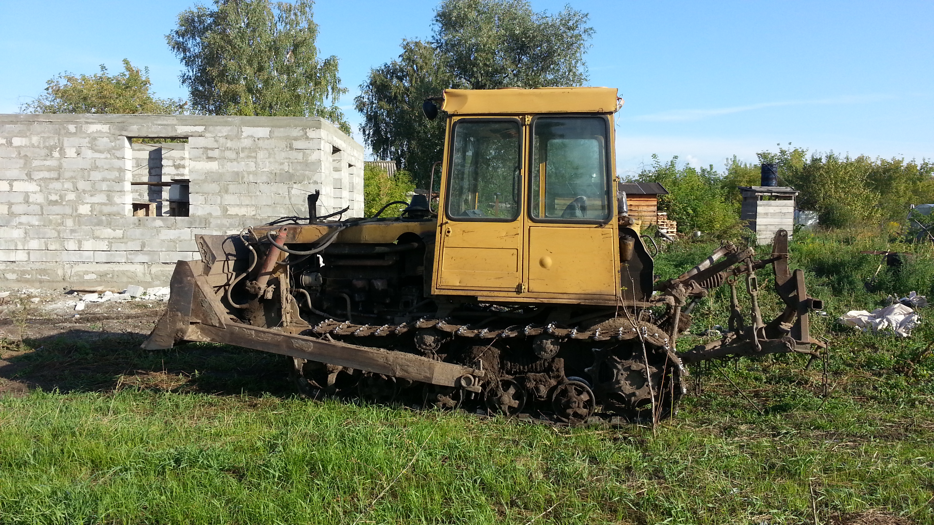 Old bulldozer DZ-29 based on DT-75 tractor